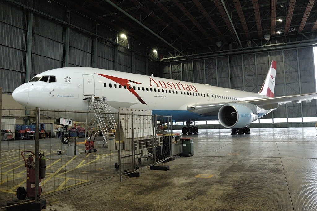 Boeing 767-300ER OE-LAE (Austrian Airlines) in a hangar